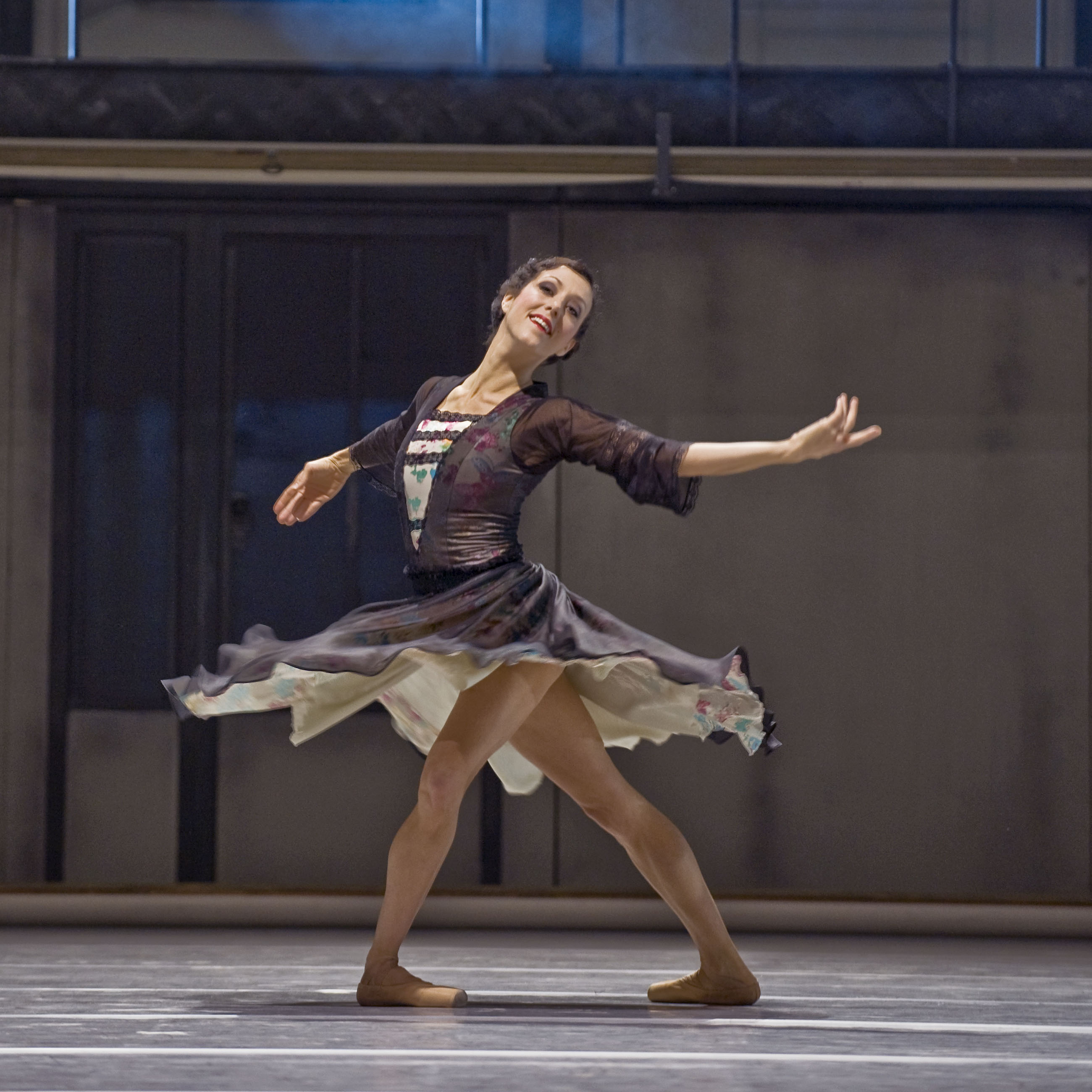 Nicole Rhodes as Svanhilda at the Royal Swedish Opera 2009